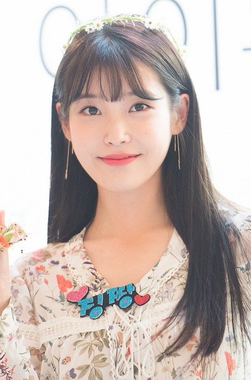 IU for Sony, 25 July 2016